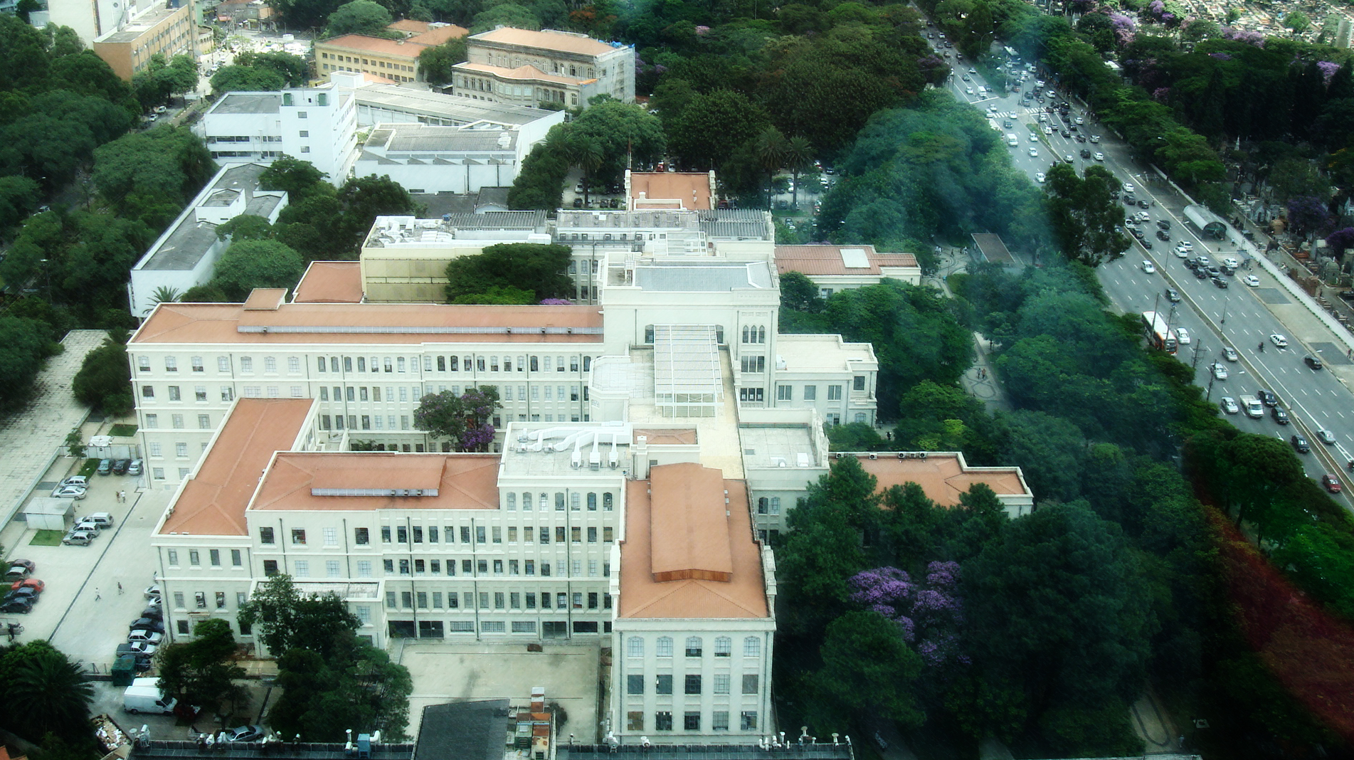 Sky eyesight from Medicine School of University of Sao Paulo. Picture obtained from Cancer Institute, situated beside Medicine School.